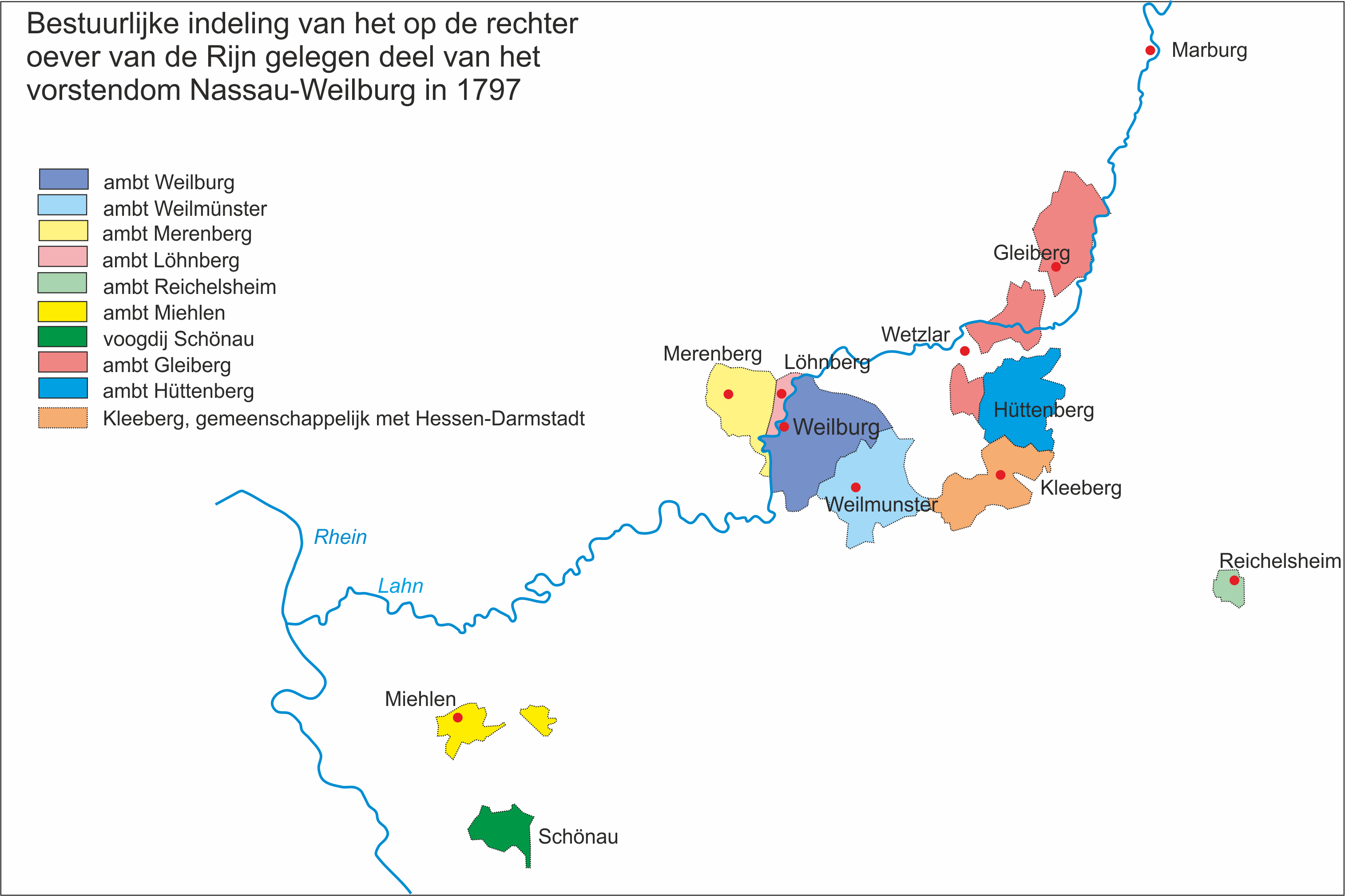 the part of the principality Nassau-Weilburg on the eastern side of the river Rhine in 1789